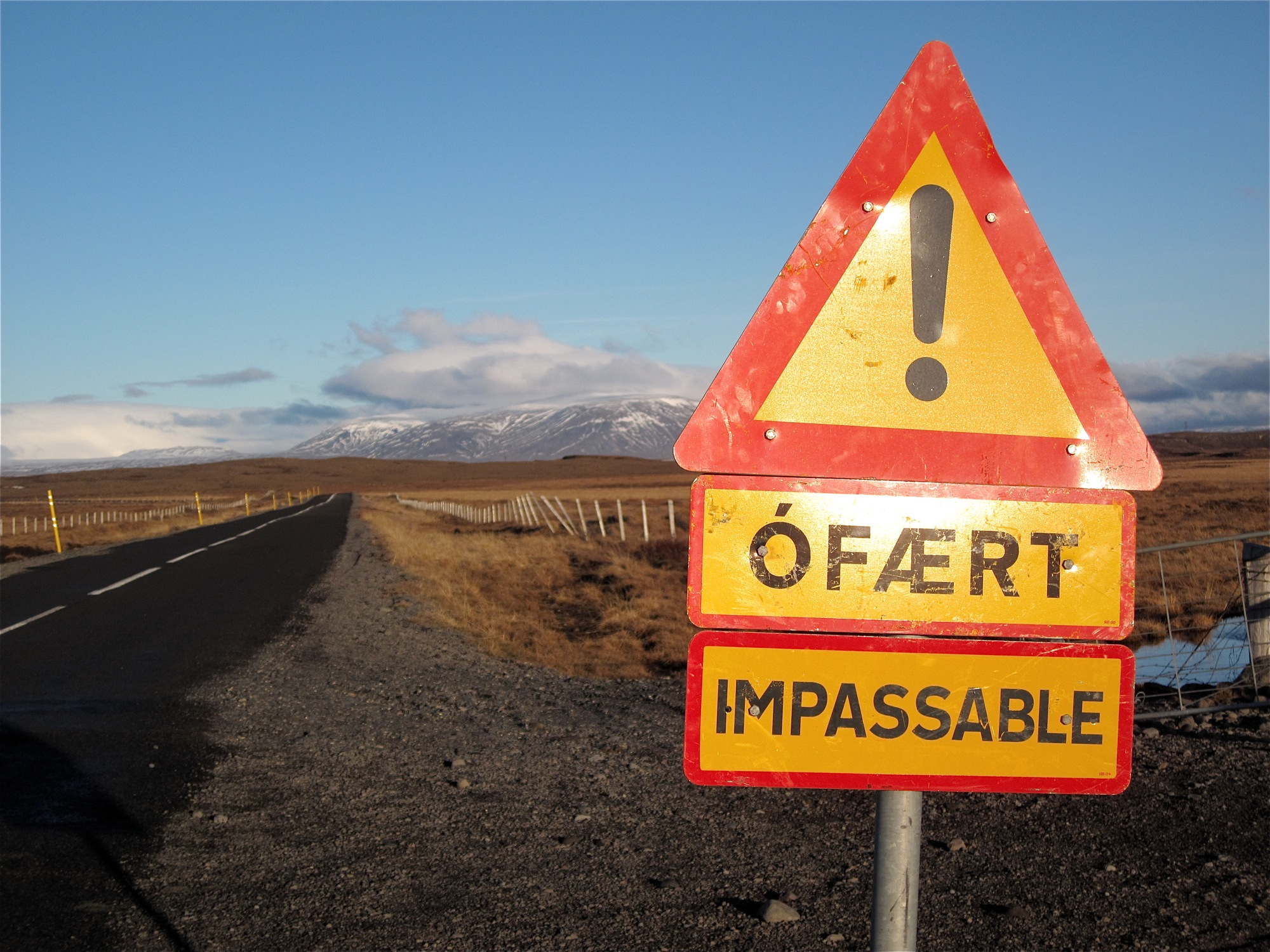 I am sure there has a future use in a presentation on overcoming obstacles.